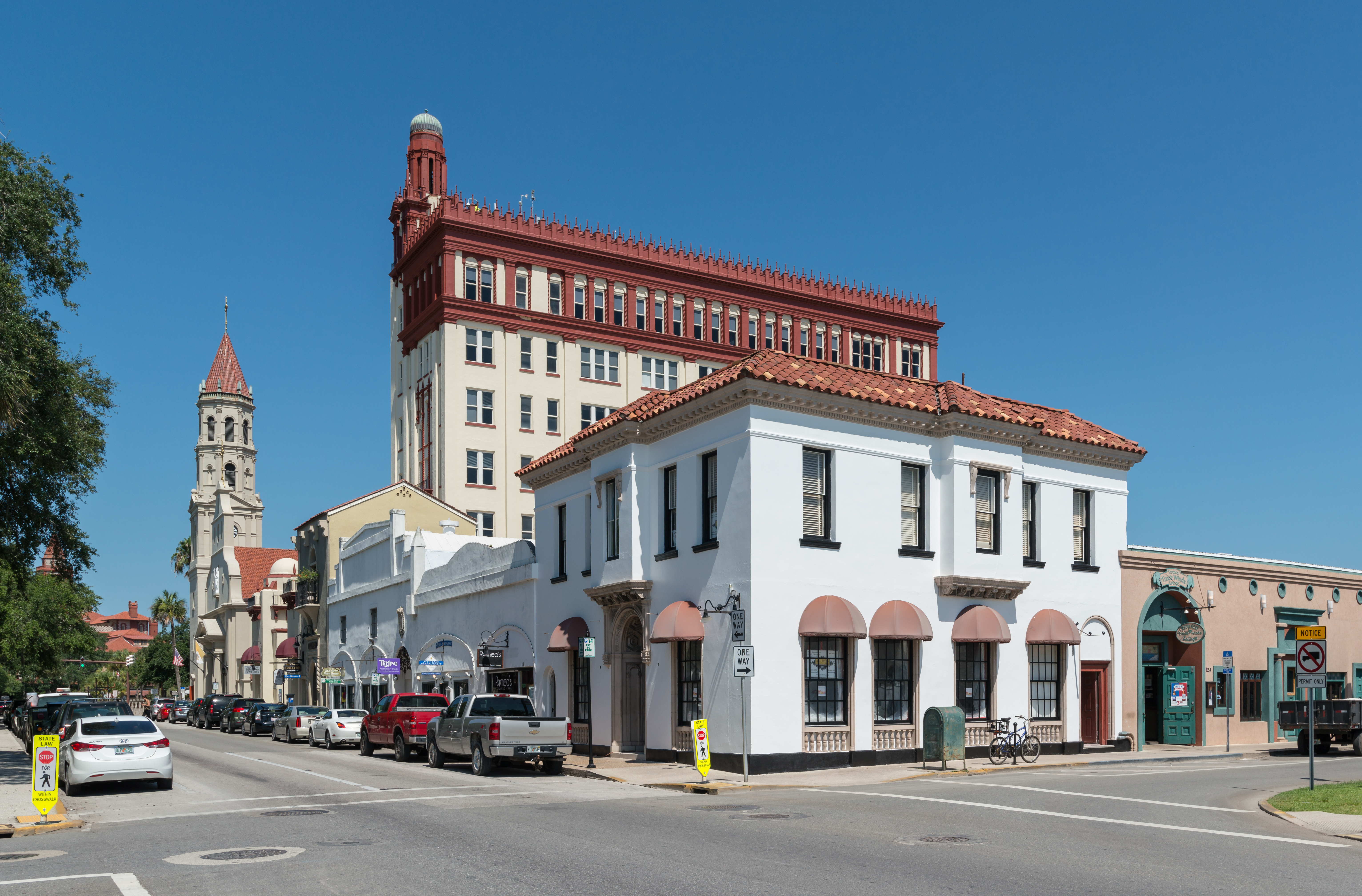 An east view of St. Augustine, Florida, as seen at the intersection of Cathedral Pl and Charlotte St